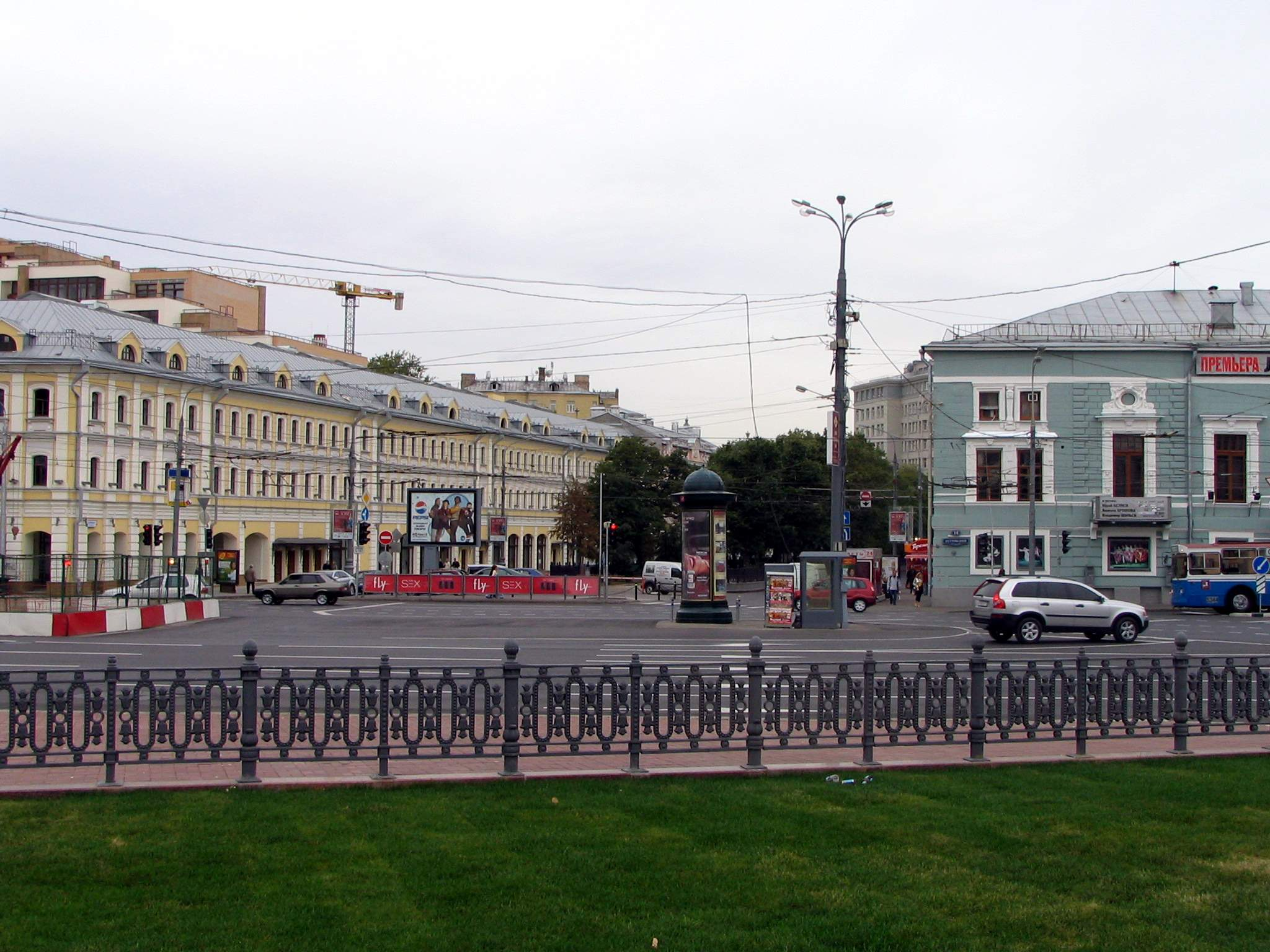 Moscow, Trubnaya sq.